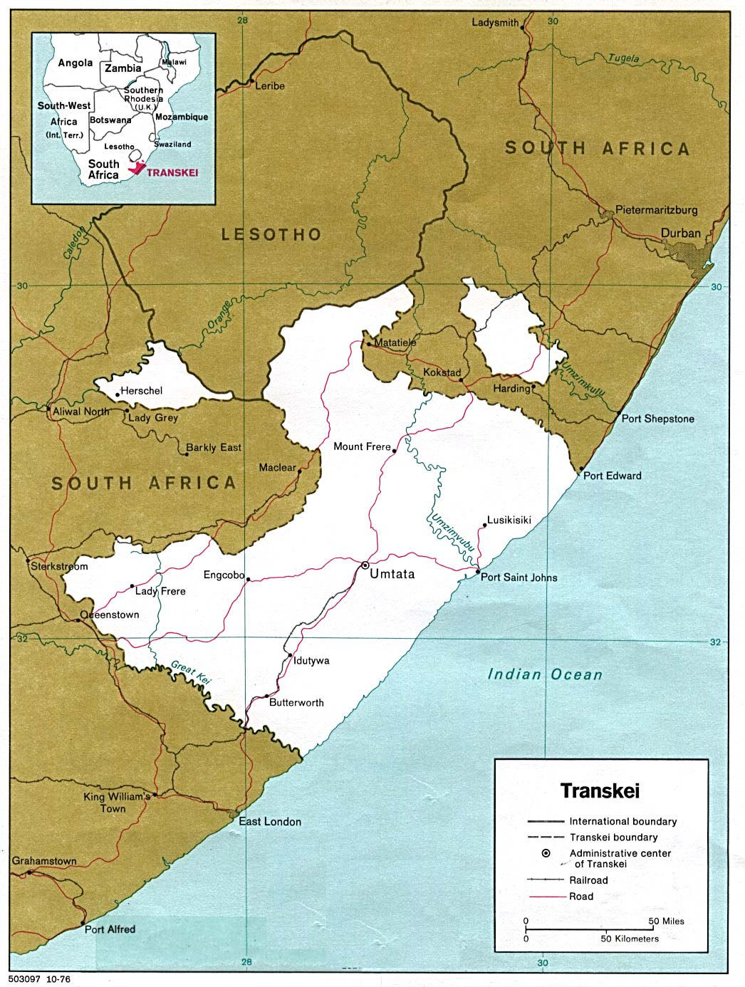 Produced by the CIA. From the Perry-Castaneda Map Collection.